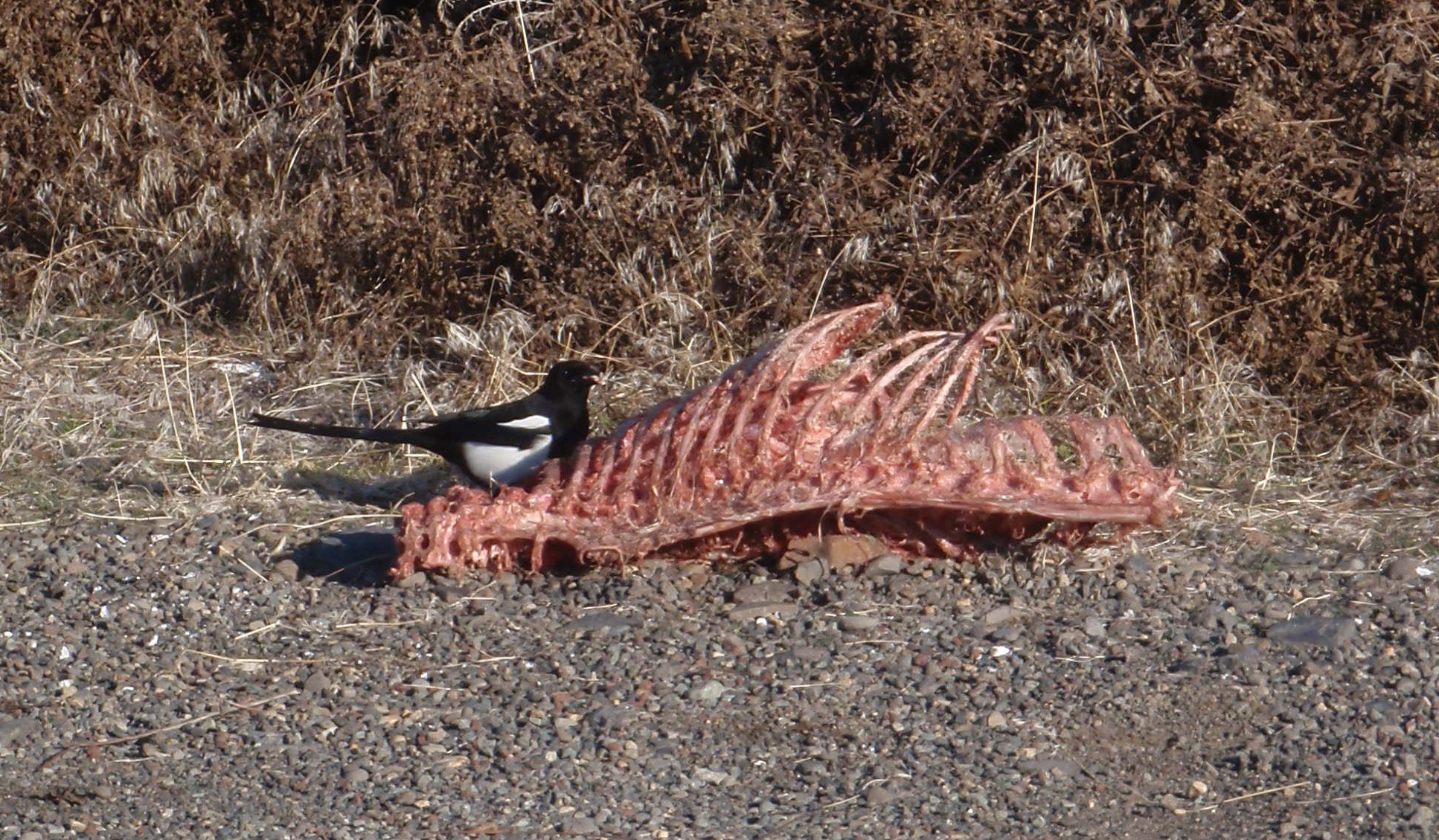 Image of a Pica hudsonia taken by me on 5 December 2009 in Umtanum Ridge in Yakima County, Washington